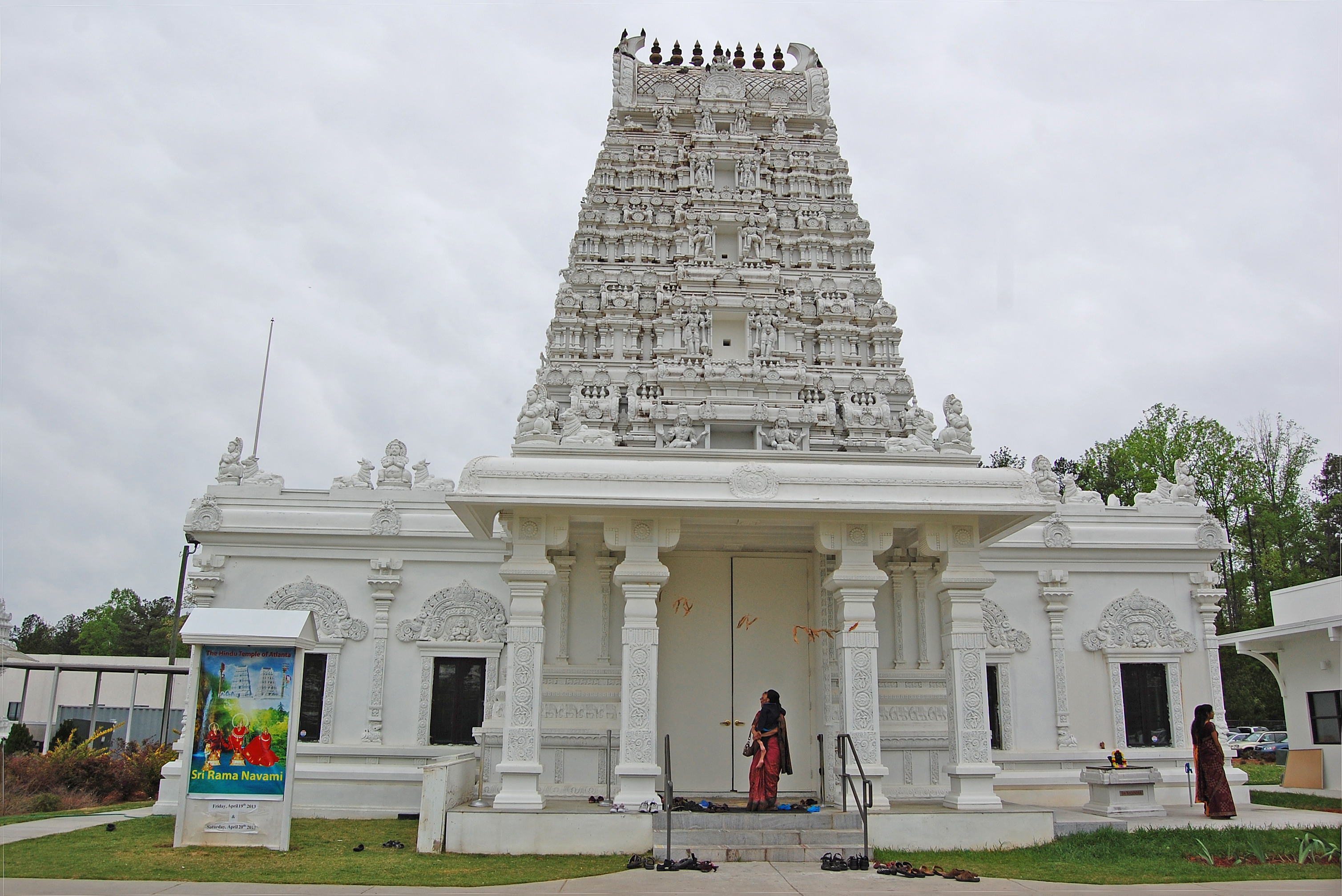 Lord Siva complex in Hindu Template of Atlanta